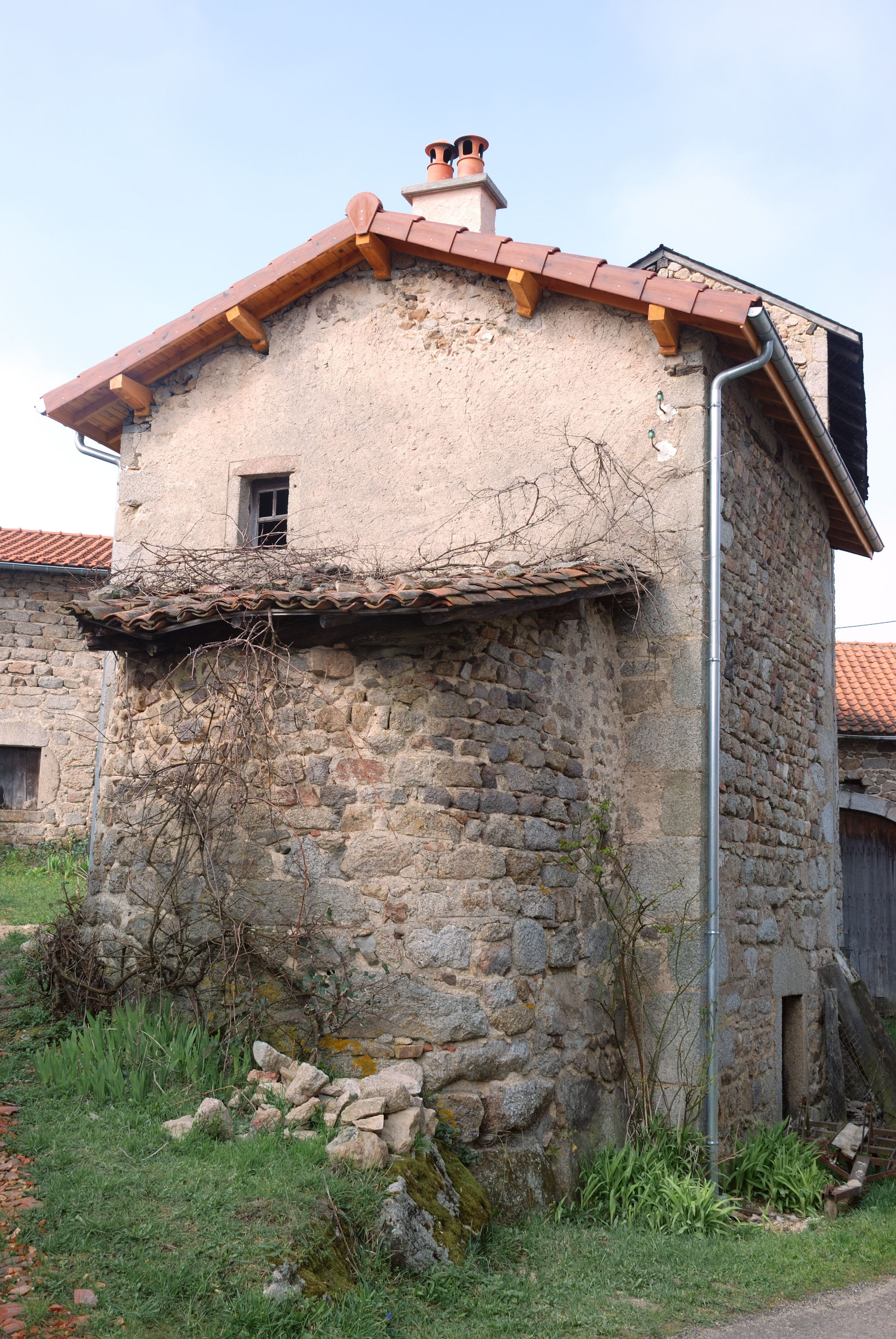 Village of Cartailler : house with a baking oven (commune of Lachaux, Puy-de-Dôme, France).